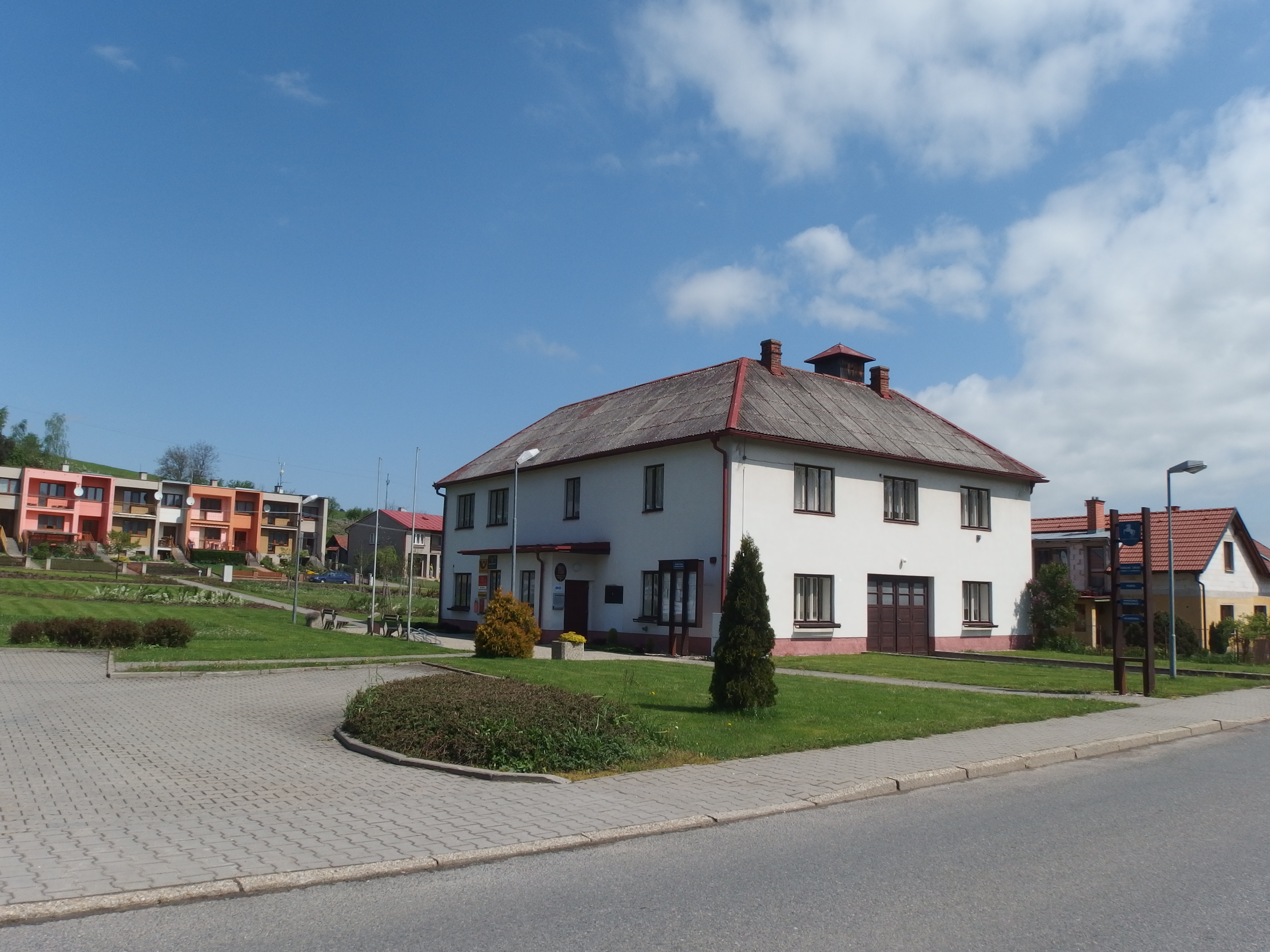 Poříčí u Litomyšle, Svitavy District, Czech Republic.